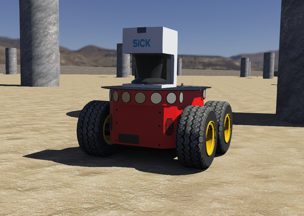 Pioneer3at Simulation